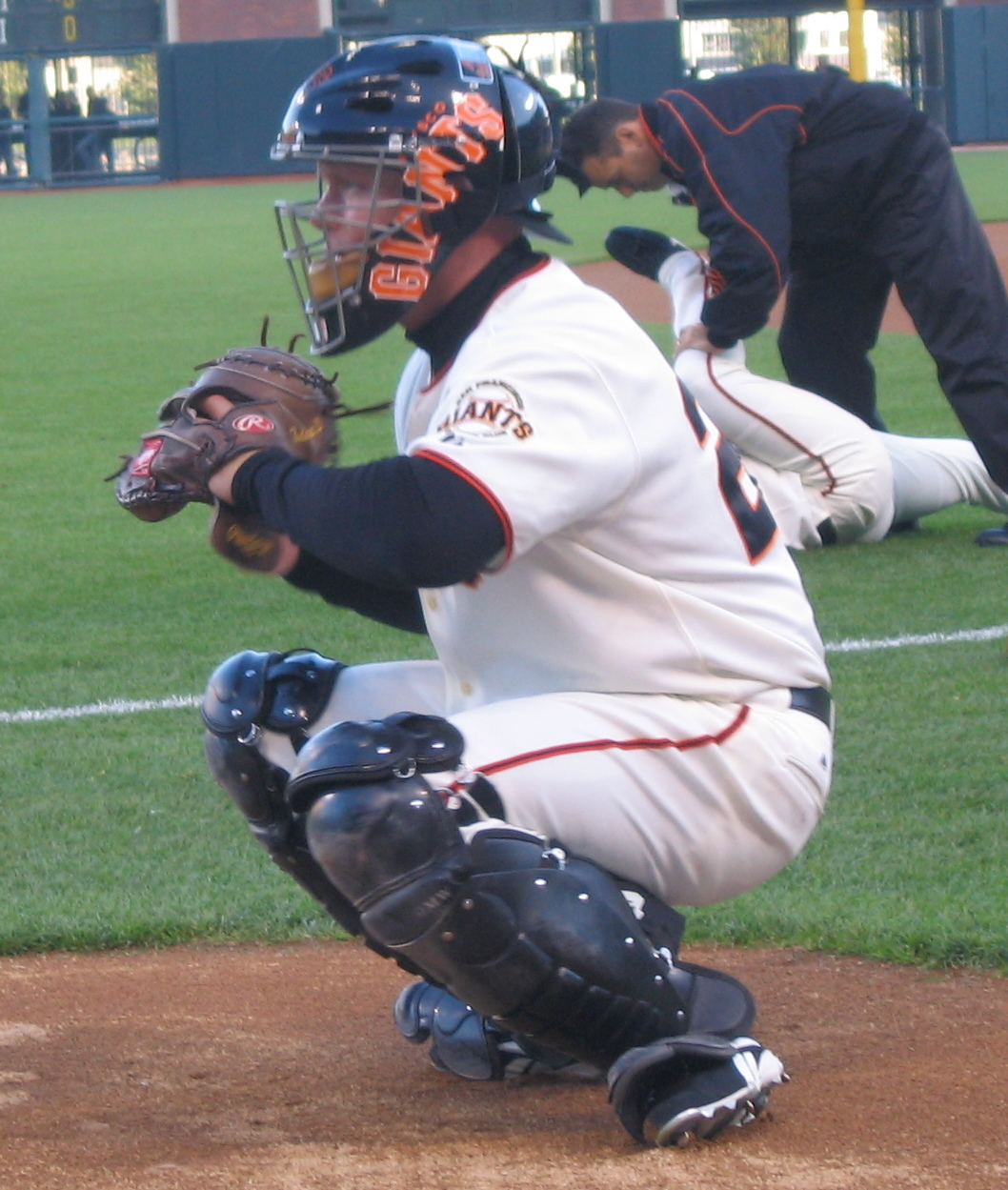 Catcher Todd Greene of the San Francisco Giants warms up a pitcher before an August 2006 game at AT&T Park in San Francisco.